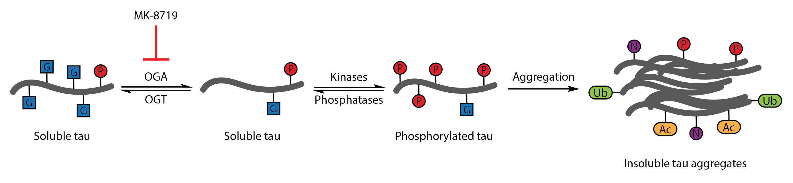 MK-8719 mechanism of action to inhibit tau aggregation. Adapted from J. Med. Chem. 2019, 62, 10062-10097.